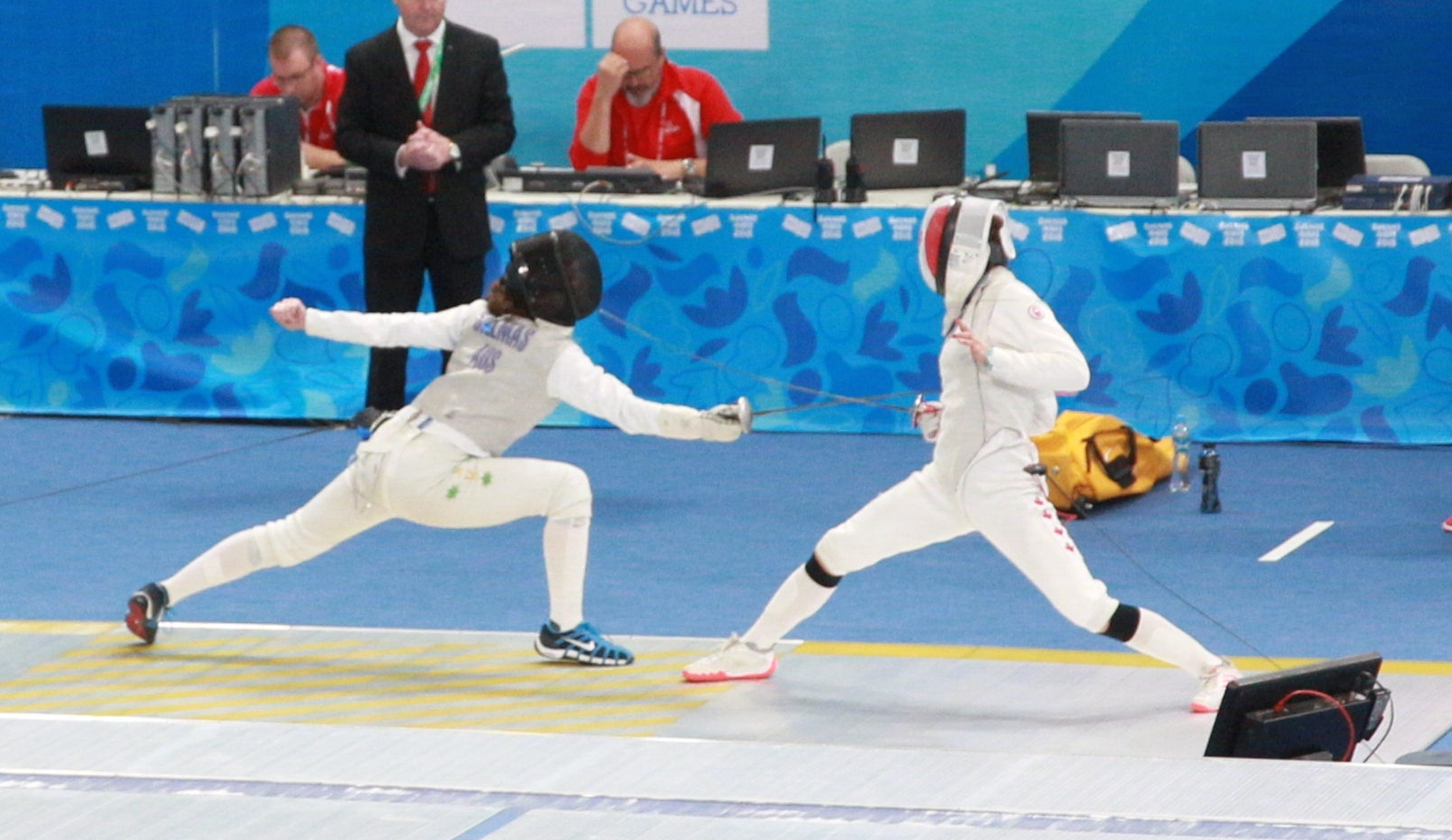 Fencing at the 2018 Summer Youth Olympics at 7 October 2018 – Girls' foil Round of 16 – Giorgia Salmas (AUS) Vs Jane Caulfield (CAN) 8:15